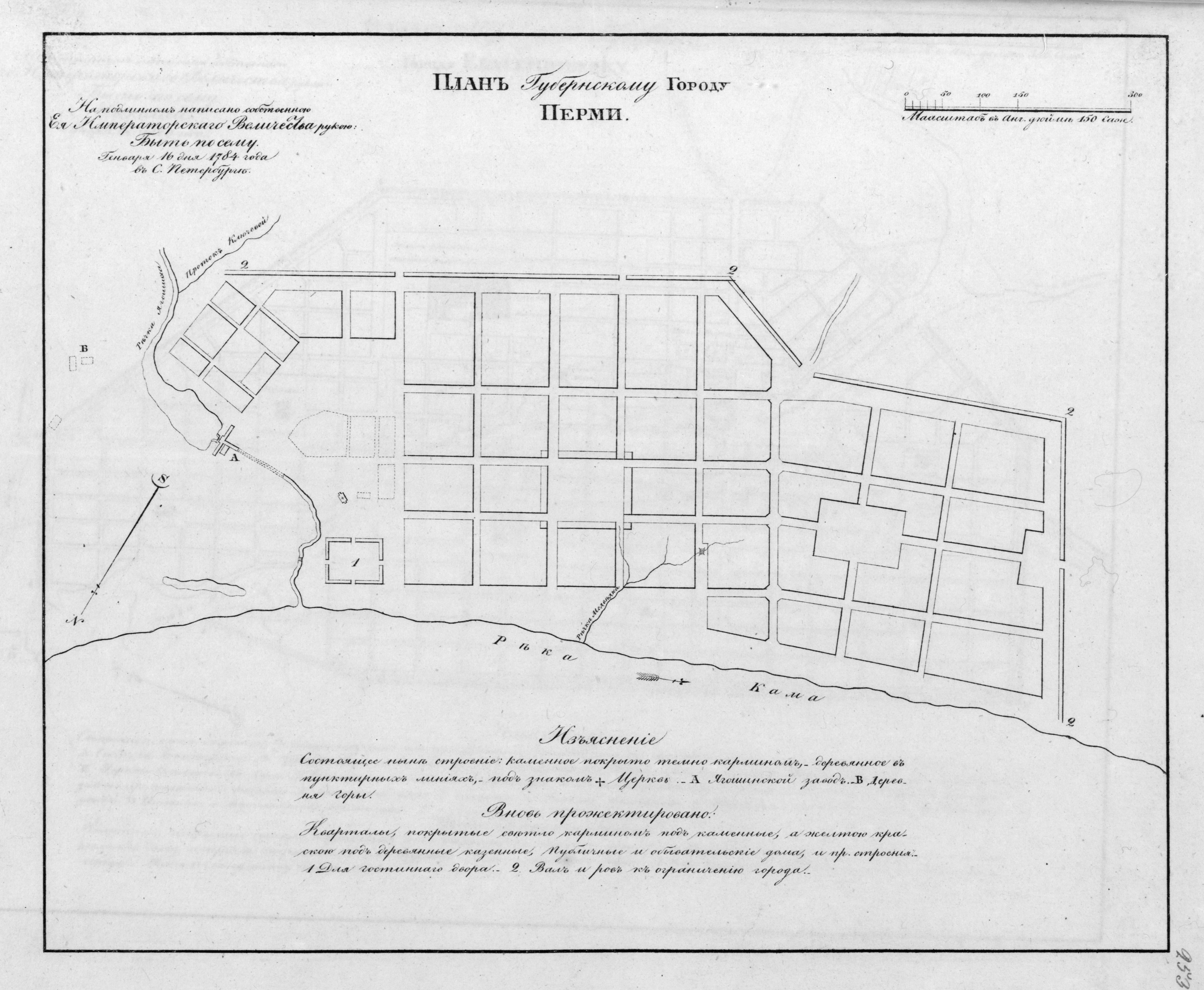 The map of Perm of 1784